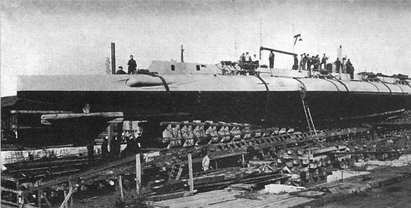 Russian submarine «Narwhal».